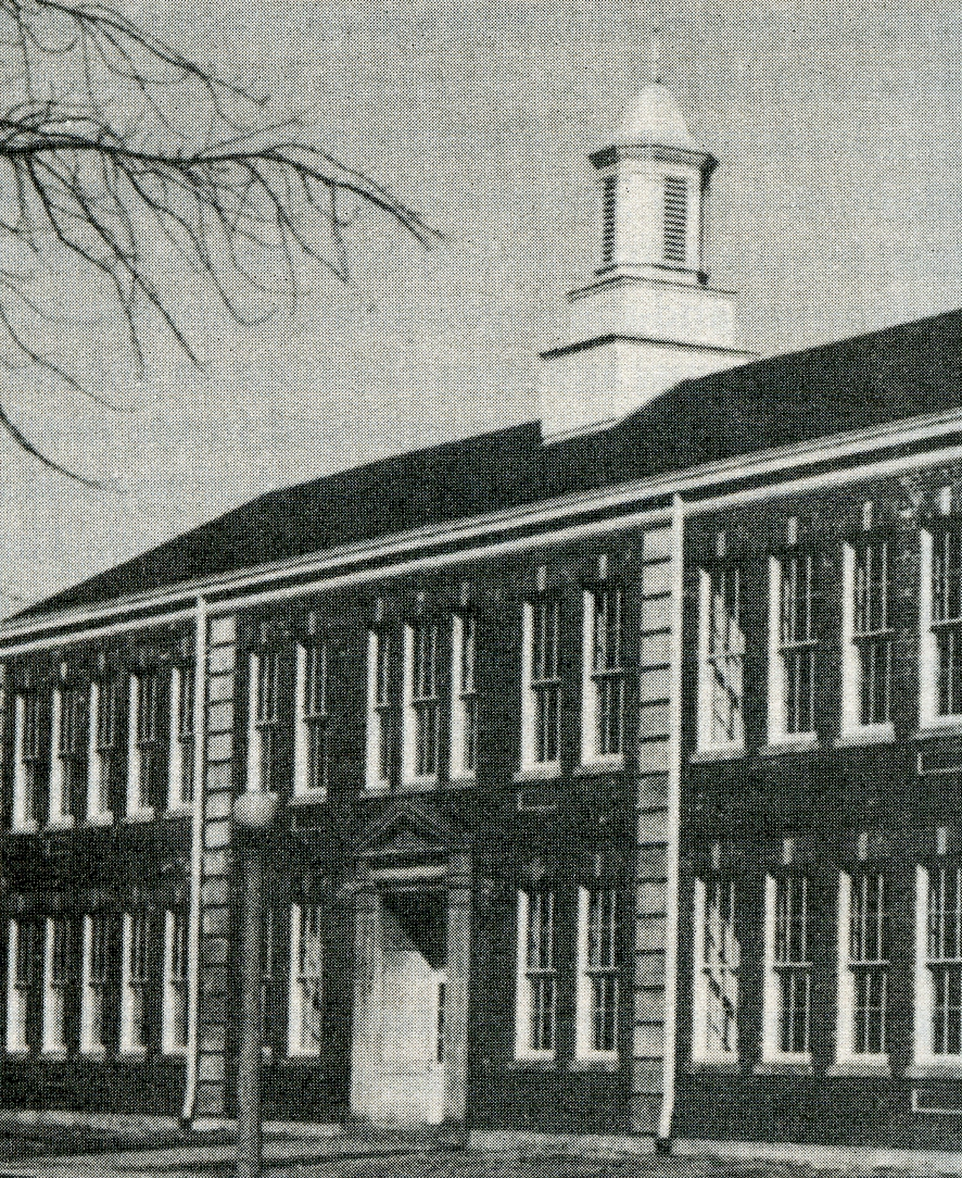 The third home of Timothy Christian School on 12th Street and 60th Court in Cicero. It was erected in 1952 when the school moved within Cicero.